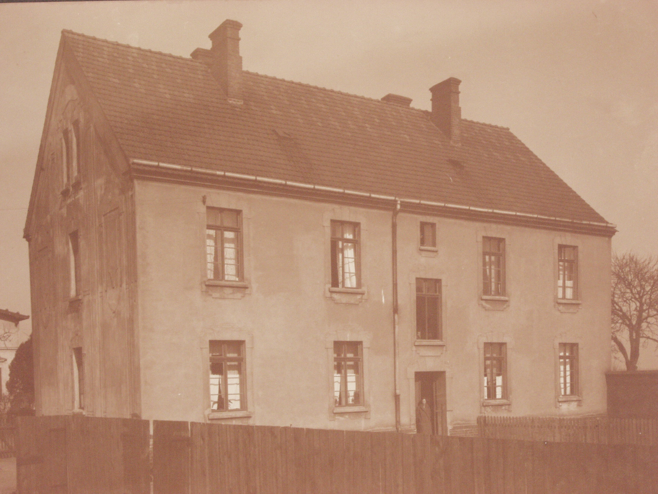 Opalenica narrow gauge railway photo shot about 1920